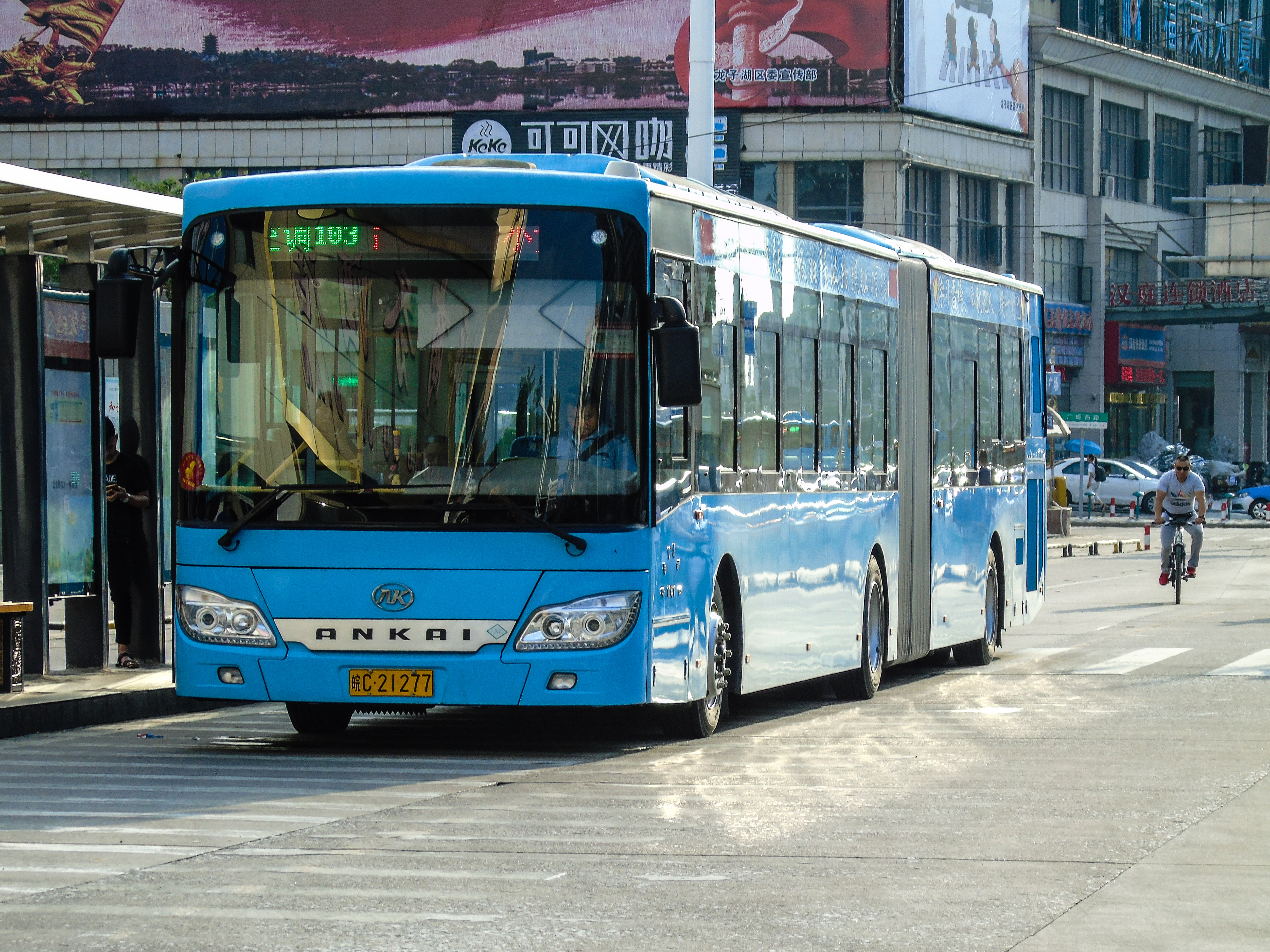 Bengbu Bus No.103 at Bengbu Railway Station